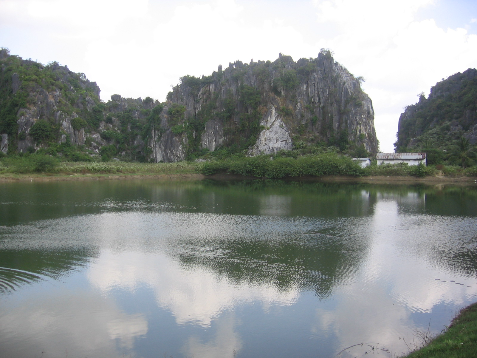 The Kampong Trach Caves, Kompot Province, Cambodia